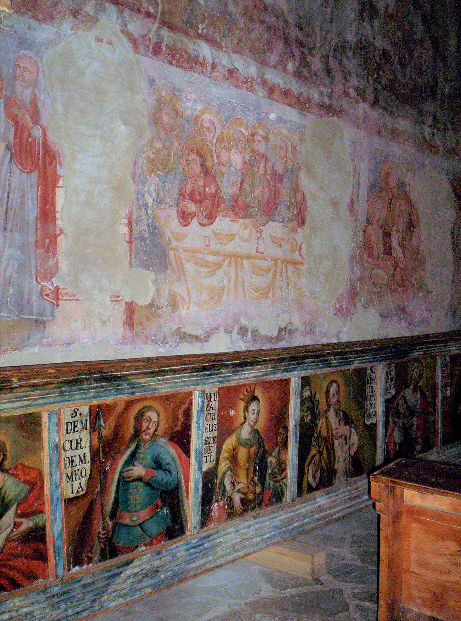 A gelencei Szent Imre-templom – photo taken by uploader User:Csanády in 2006.